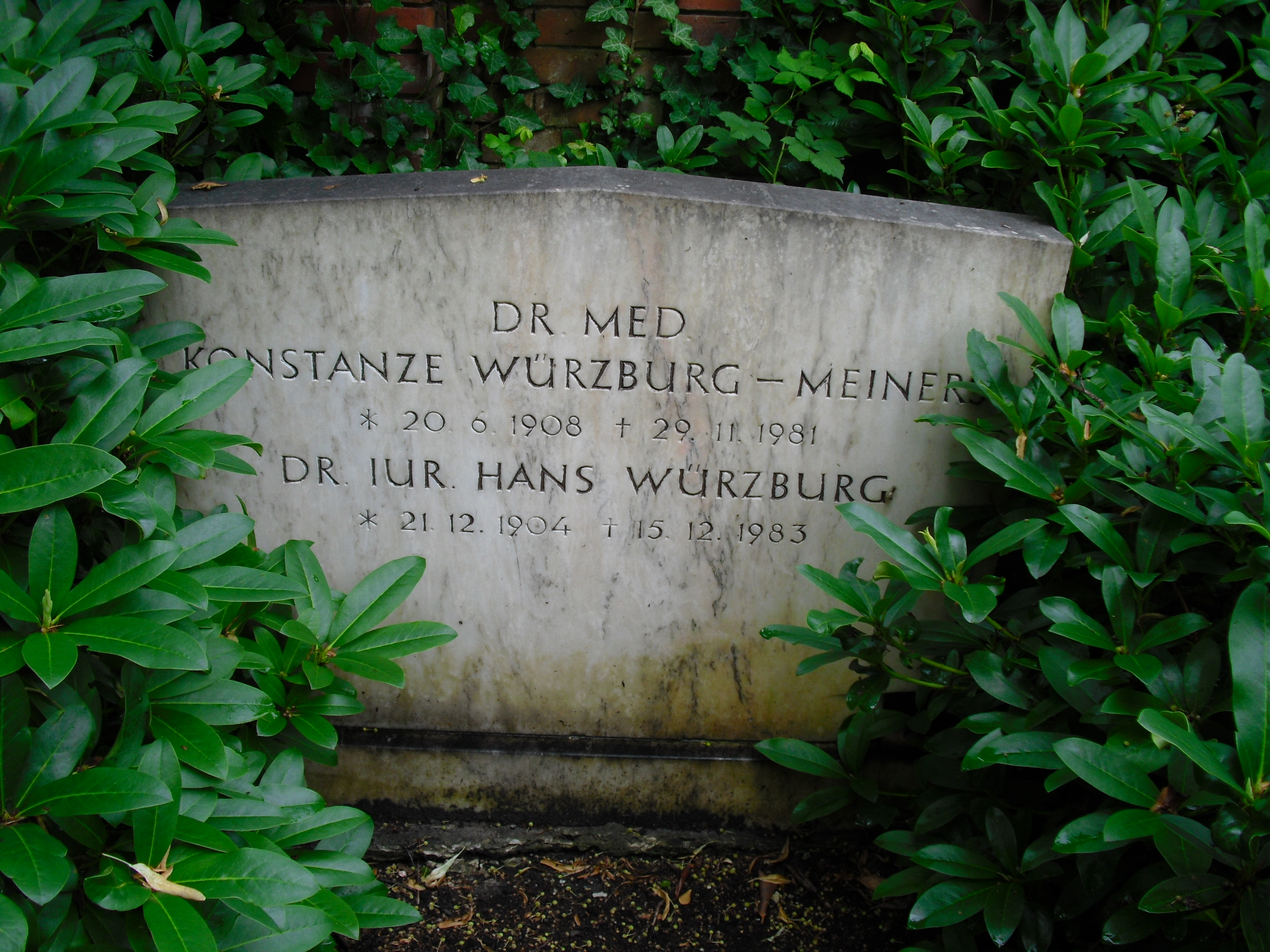 Grave of German lawyer and politician Hans Würzburg in Berlin, Friedhof Lichterfelde.